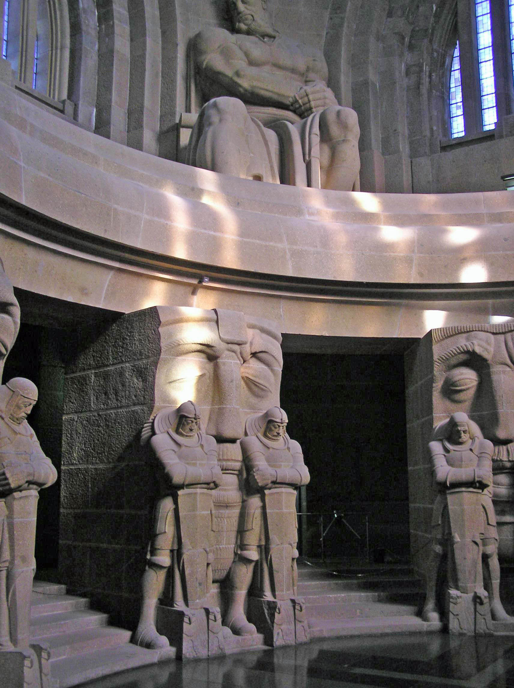 Franz Metzner's sculptural figures within the Monument to the Battle of the Nations in Leipzig